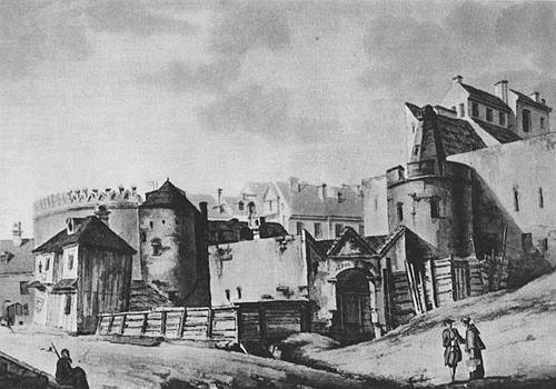 Barbican near the end of the 18th century, black and white reproduction of an akwarela by Z. Vogl.